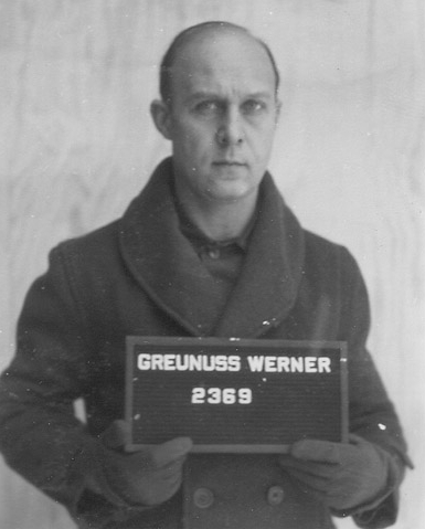 Werner Greunuss was SS-Untersturmführer and Nazi physician in the concentration Camp of Buchenwald. In the Buchenwald Camp Trial (part of the Dachau Trials) he was sentenced to lifetime imprisonment (later modified to 20 years of imprisonment)